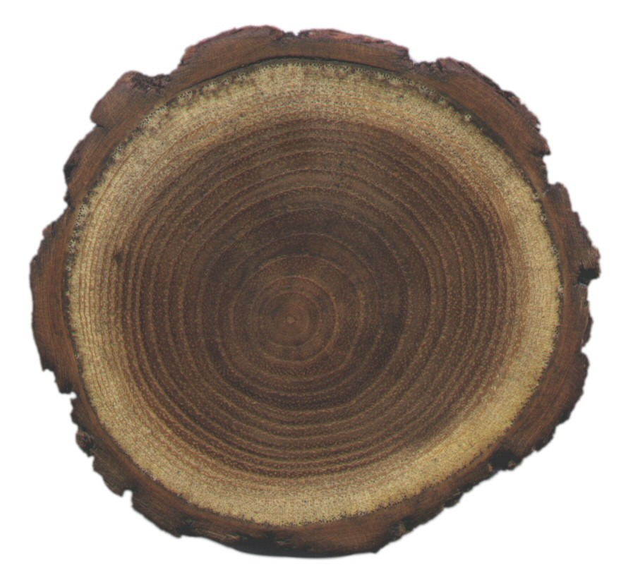 Robinia pseudoacacia cross section